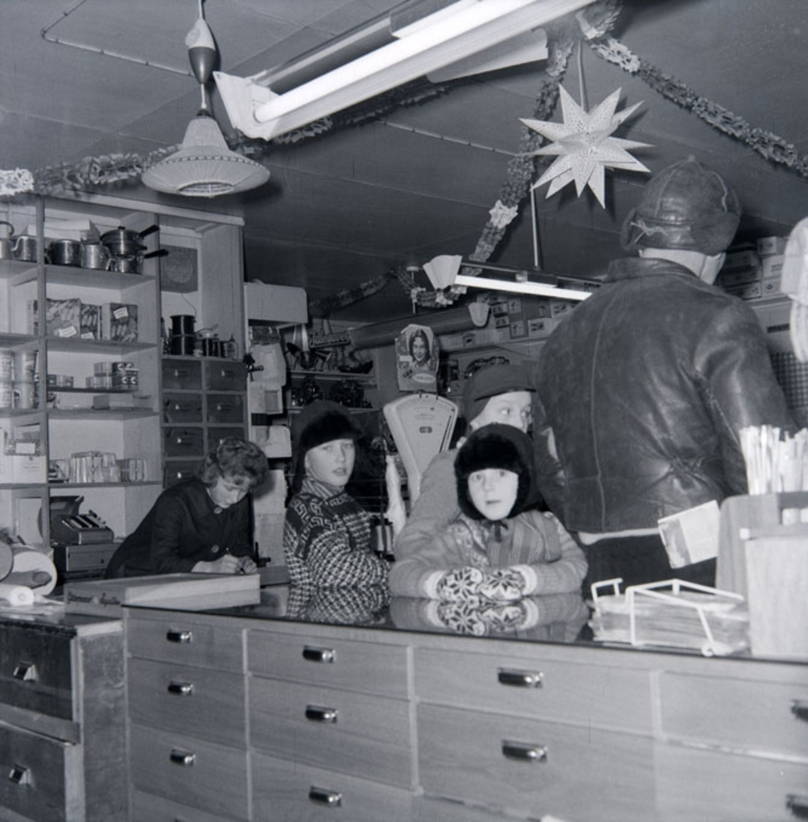 Interior from the store to Svein Laxaae, Styrkesvik in 1961. The saleswoman I think is Bjørg Volland, the boy on the left is Asle Fagerheim. Sørfold, Nordland, Norway.